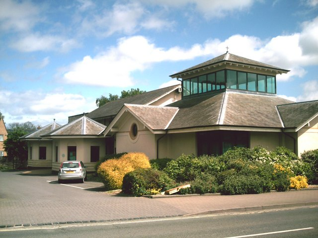 Part of St John The Evangelist's parish church, Burford Road, Carterton, Oxfordshire, seen from the west